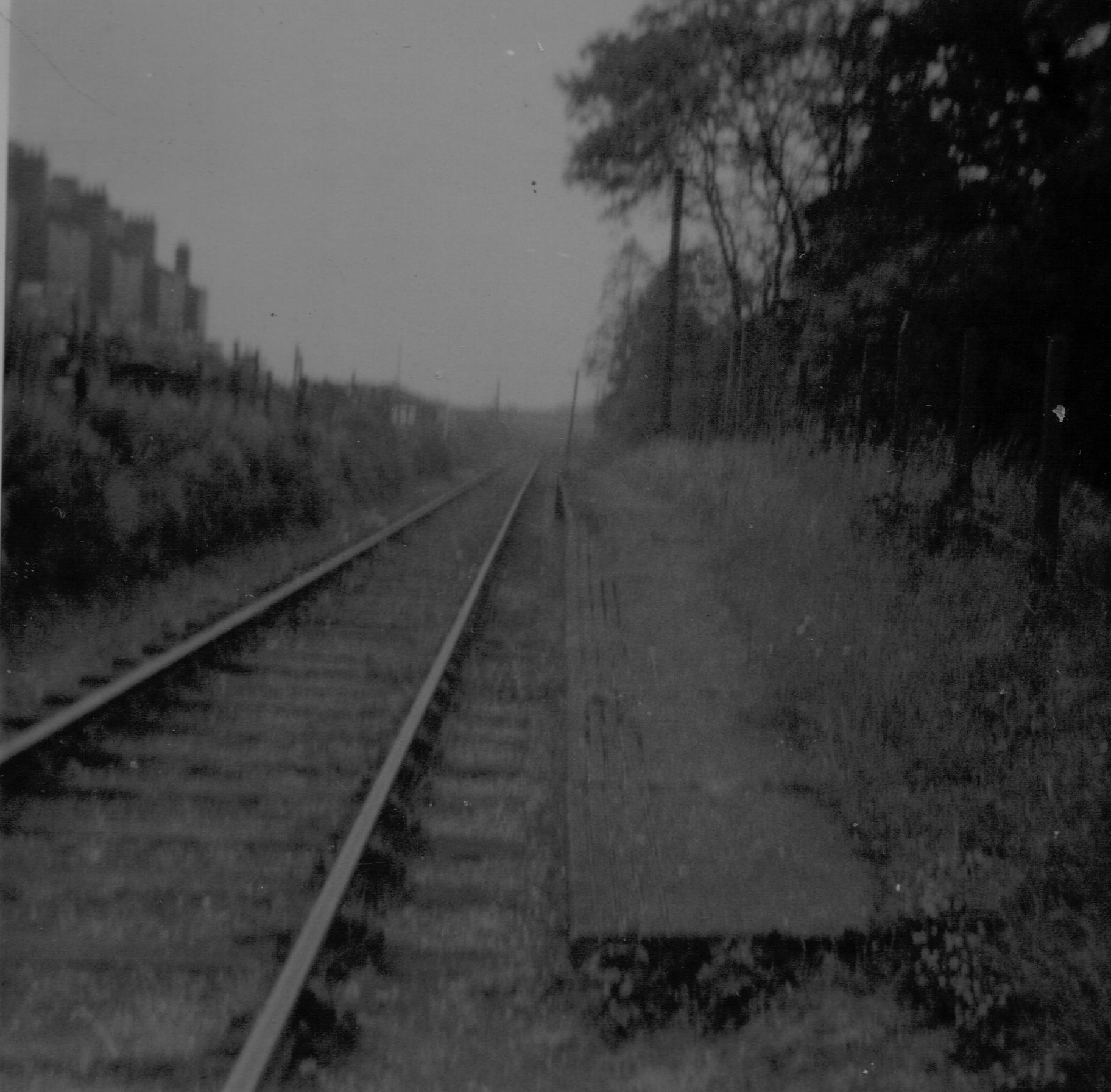 Easte Yarde Halt, South Devon, 1969